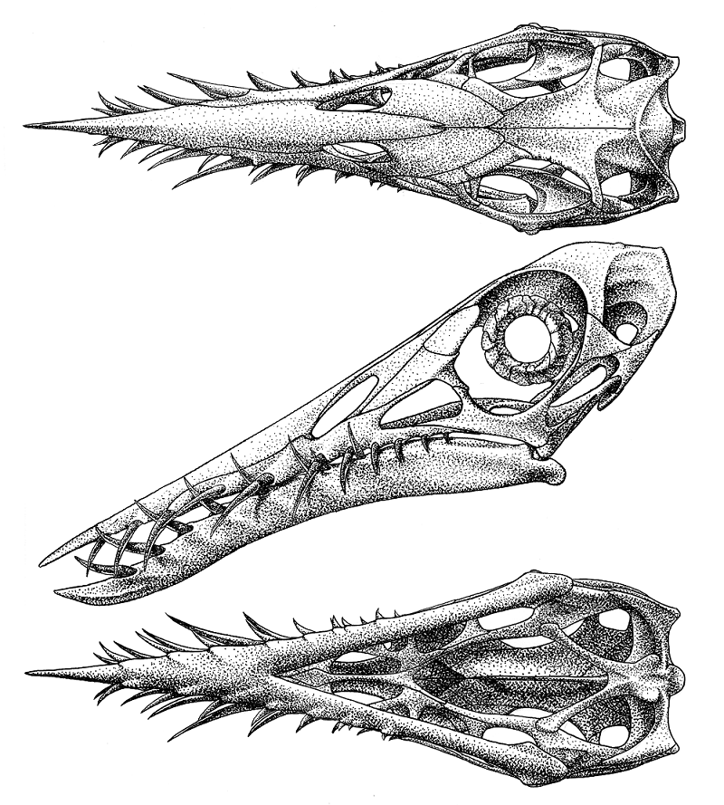 Skull reconstruction of Rhamphorhynchus.